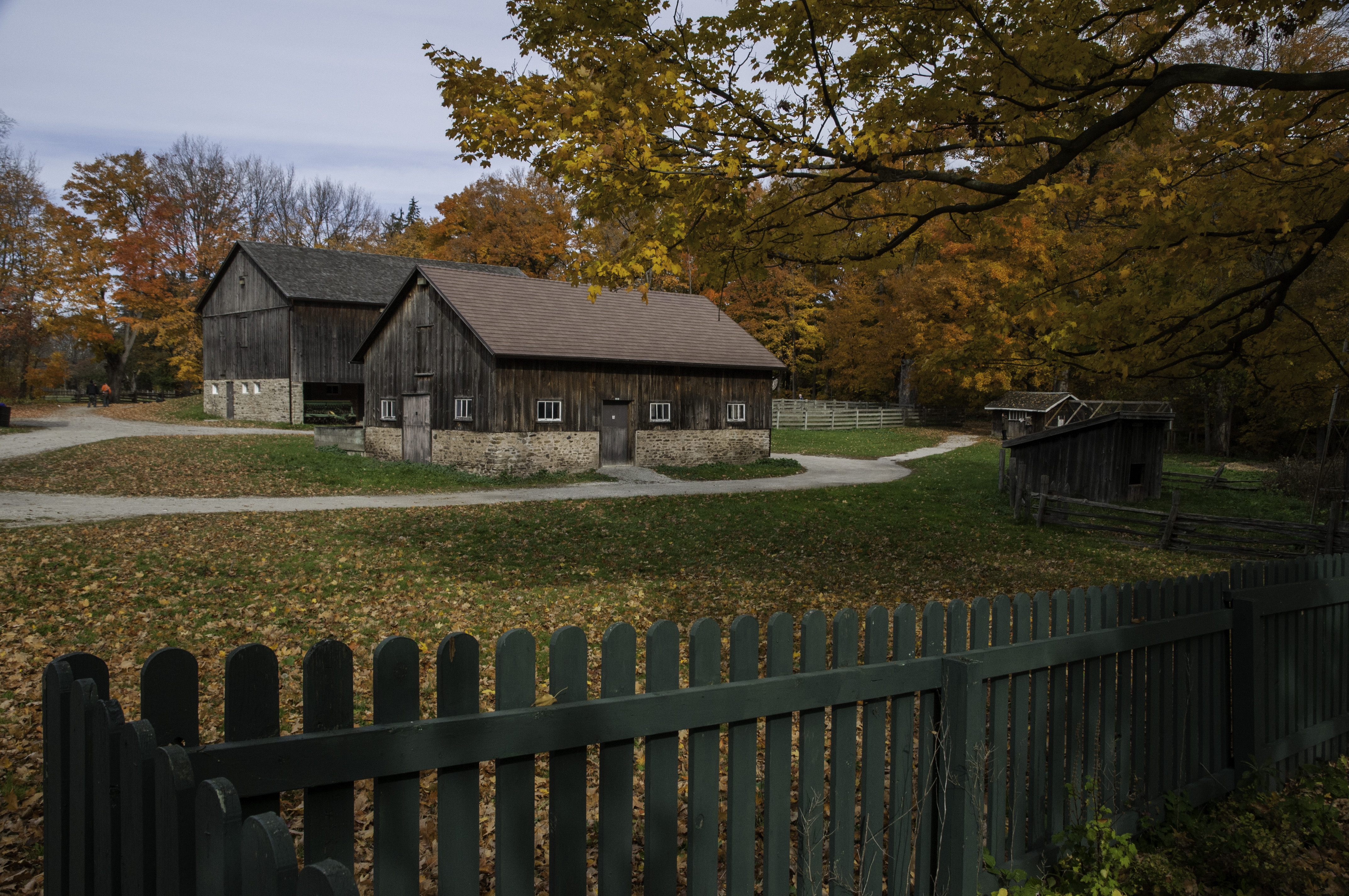 Bronte Creek Provincial Park Farmhouses This photo was taken in a protected area in Canada, Wikidata item Bronte Creek Provincial Park (Q4974076)